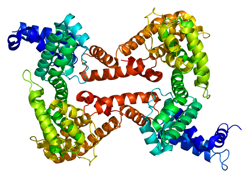 Structure of the GC protein. Based on PyMOL rendering of PDB 1j78.